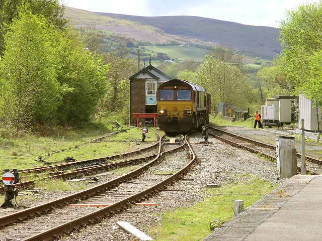 Coal train joins the Amman Valley railway branch After many years of being mothballed, the Amman Valley branch line is currently seeing new life with up to three coal trains a week running up and down to service the open cast mine near Gwaun-Cae-Guerwen. Here we see the train just leaving the Heart of Wales Line next to the Pantyffynnon signal box, which controls the entire length of the Heart of Wales line to Craven Arms and also allows a single train to access the Amman Valley Branch at any time.